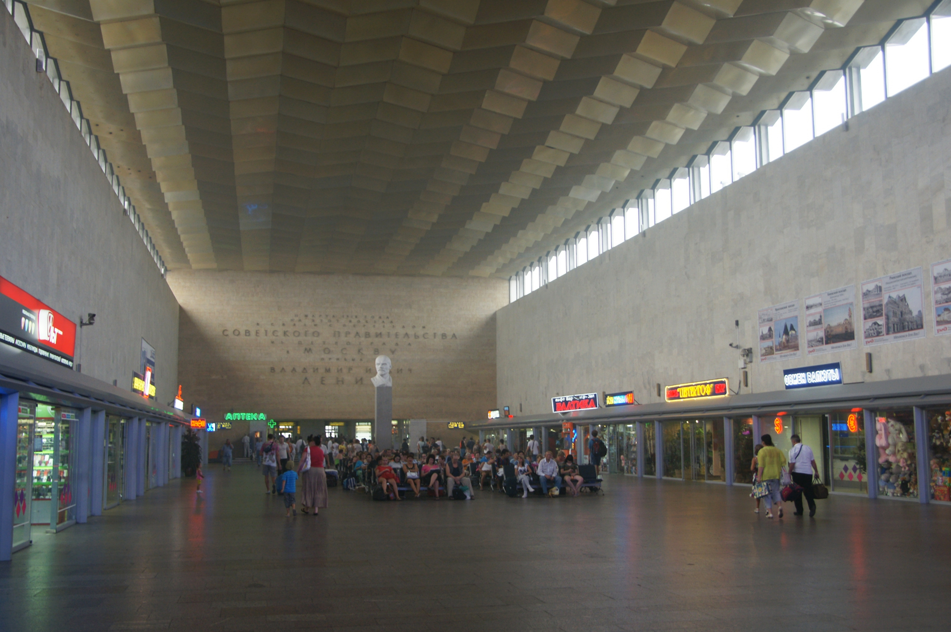 Hall at Leningradsky Station